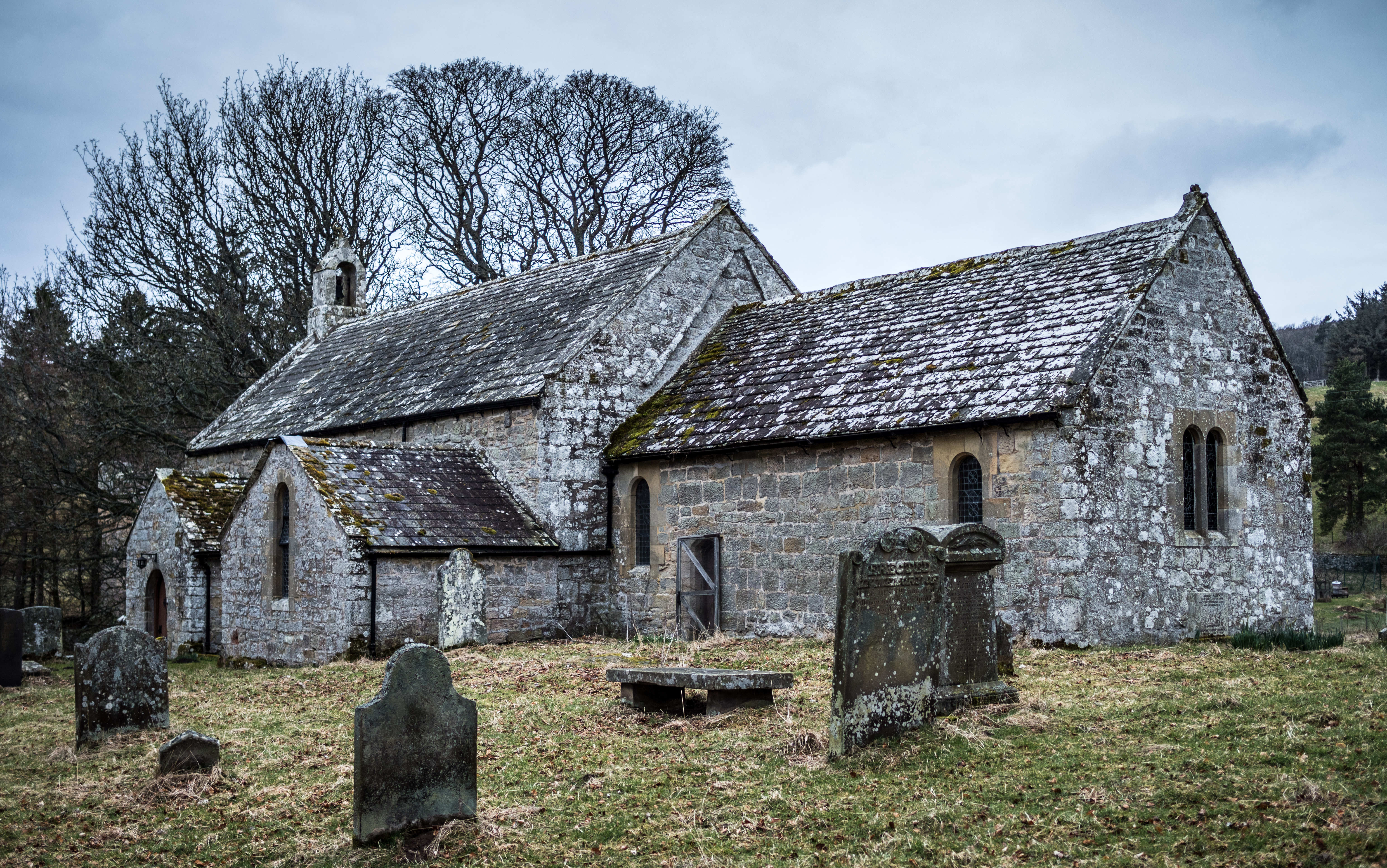 The Church of St Michael, Alnham (possibly And All Angels, seems to vary) in Alnham, Northumberland, UK. A grade 1 listed church built around 1200. Intended destination: the article on this church, perhaps that on the village too.